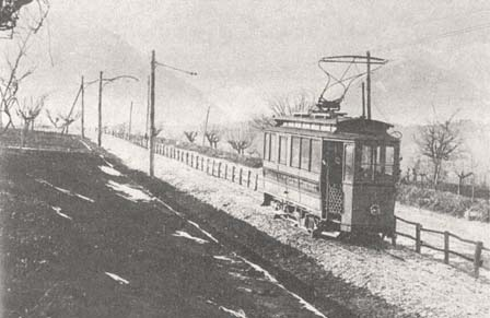 Fornacette, tram vehicle in 1906